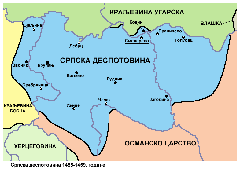 Serbian Despotate in 1455-1459.